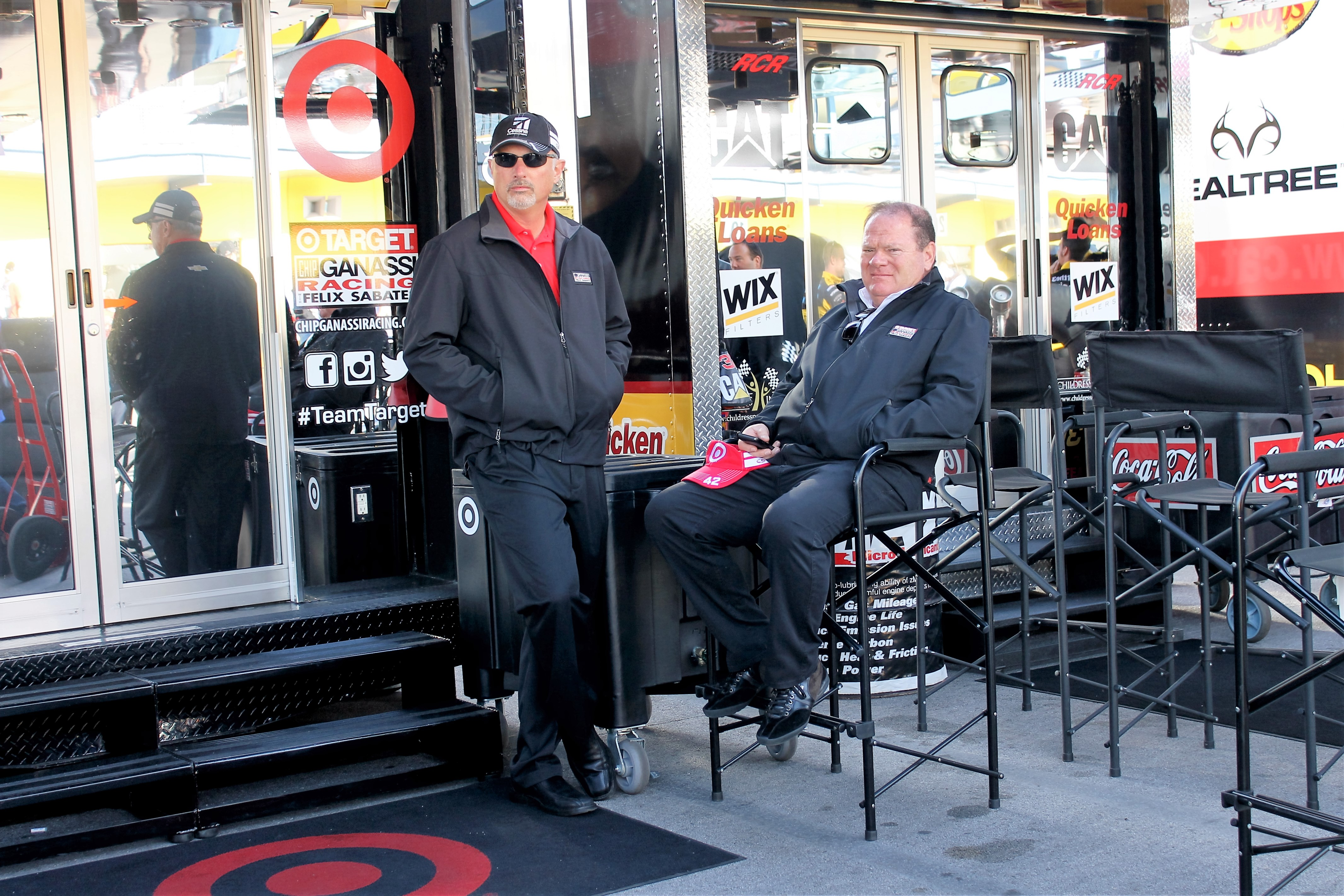 Chip Ganassi and Lorin Ranier at Las Vegas Motor Speedway-2014 Photo Credit: Rob Street